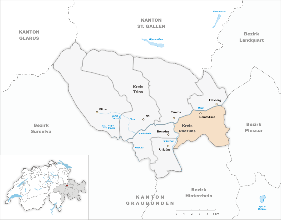 Municipality Domat Ems